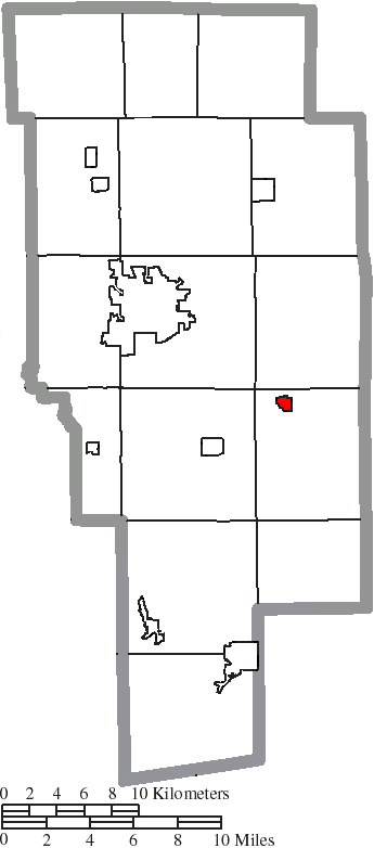 Map of the municipal and township boundaries of Ashland County, Ohio, United States, as of the 2000 census, with the location of the village of Jeromesville highlighted. Township borders are shown only in unincorporated areas in order to differentiate incorporated and unincorporated areas more clearly.